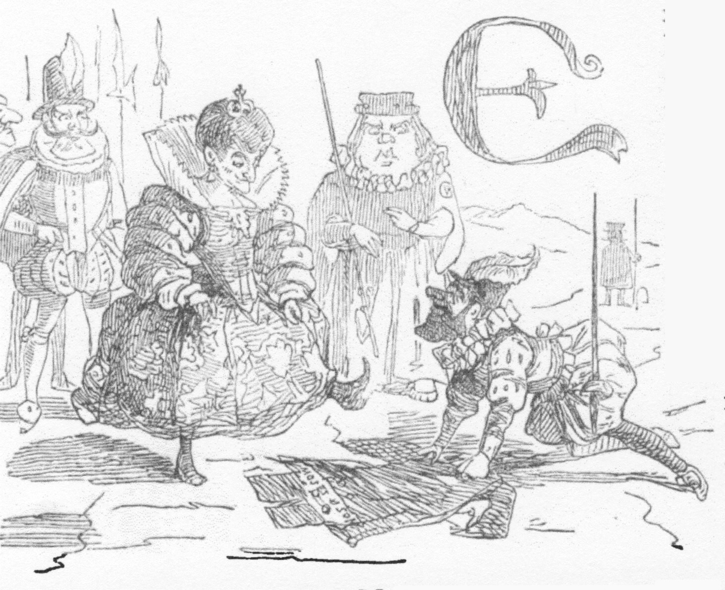 Engraving on wood by W. M. Thackeray himself, for the first edition of The Book of Snobs : chapter IV (illustration and dropped initial)